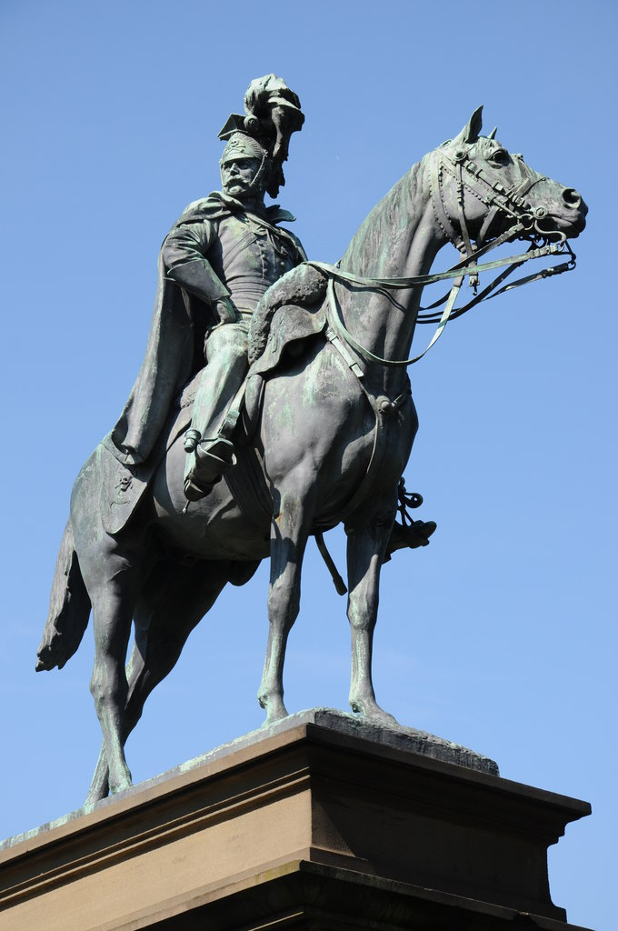 Statue of Godfrey, First Viscount Tredegar. He took part in the Charge of the Light Brigade at the Battle of Balaclava in 1854. He became Lord Tredegar in 1875 on the death of his father and became Viscount in 1905. His ancestral home was Tredegar House near Newport.